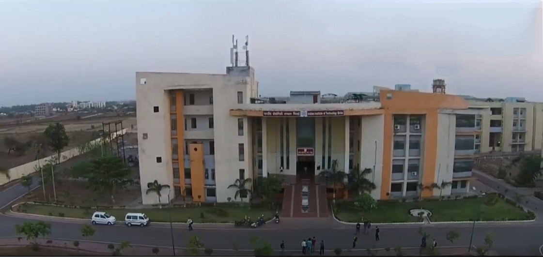 This is an aerial view (captured by a remote-controlled drone) of the academic building at the transit campus